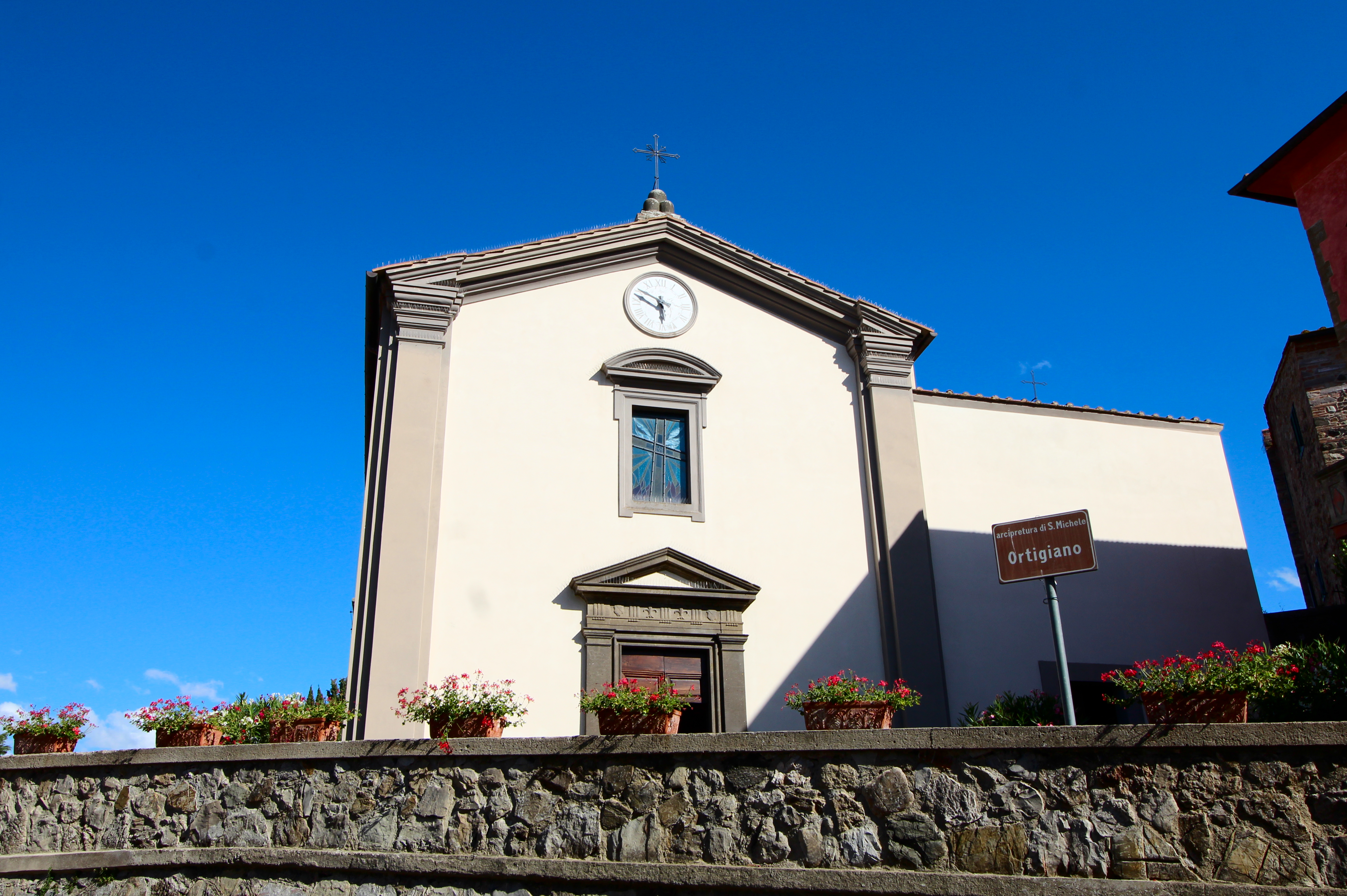 Church San Michele Arcangelo, Orciatico, hamlet of Lajatico, Province of Pisa, Tuscany, Italy